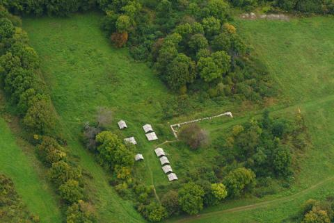 Pilisszentkereszt, ruins of Cistercian Abbey, Hungary, aerialphotography